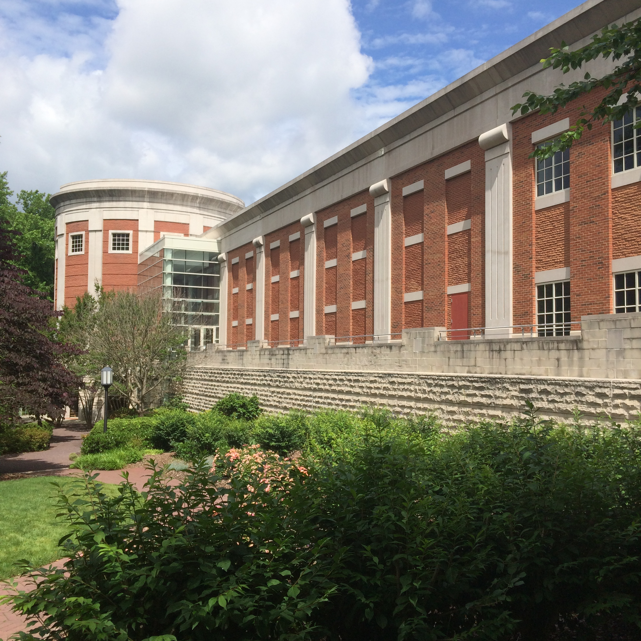 The School of Music and main offices of the School of Music, Theatre and Dance at the University of North Carolina at Greensboro in Greensboro, North Carolina.